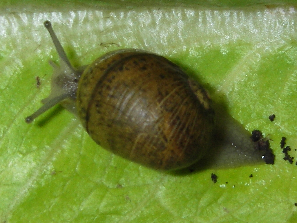 Photo of Helix aperta. Locality: Greece: island of Salamina. Date: 19 January 2010.